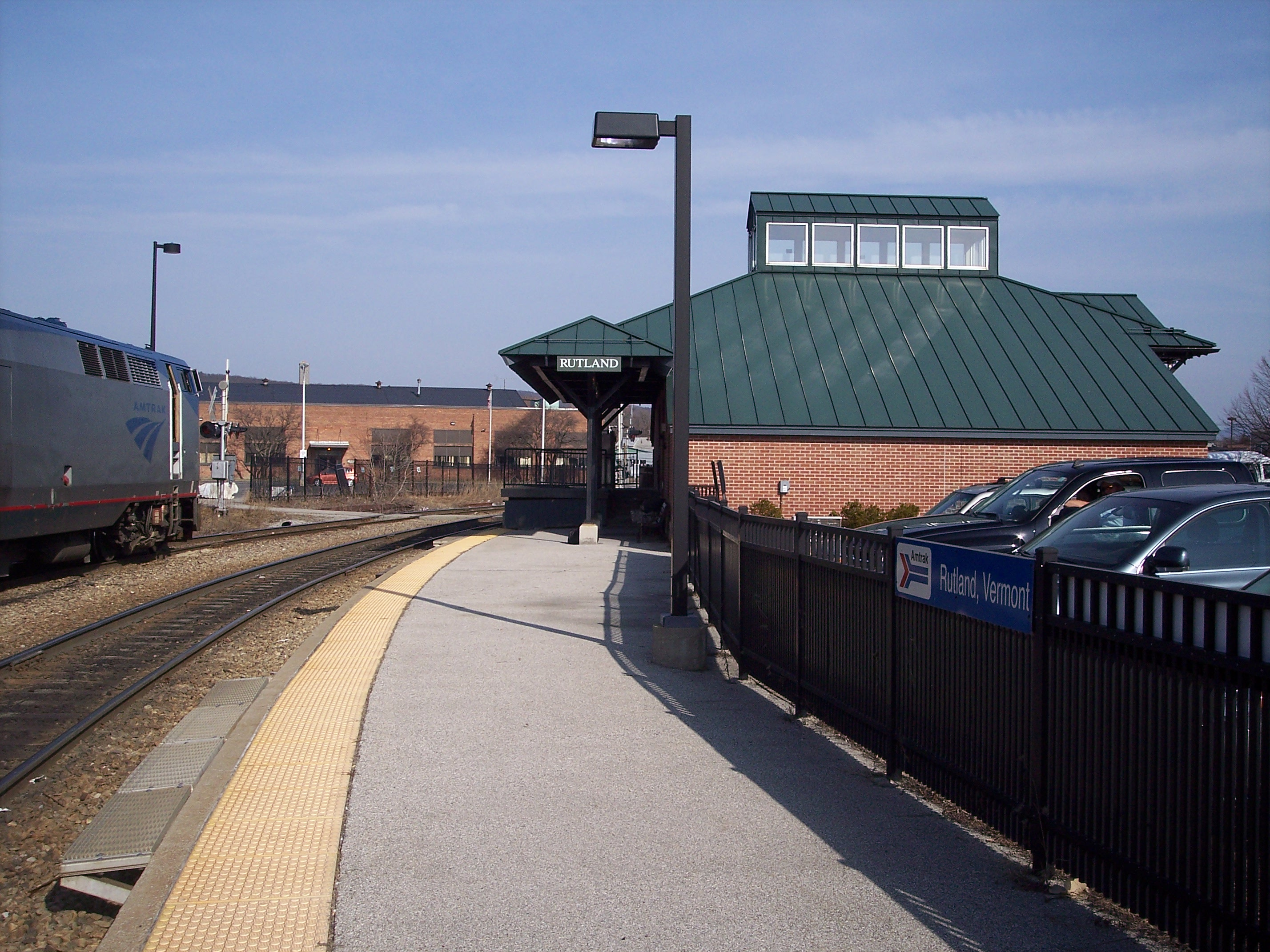 The Ethan Allen Express at its terminus at Rutland, Vermont